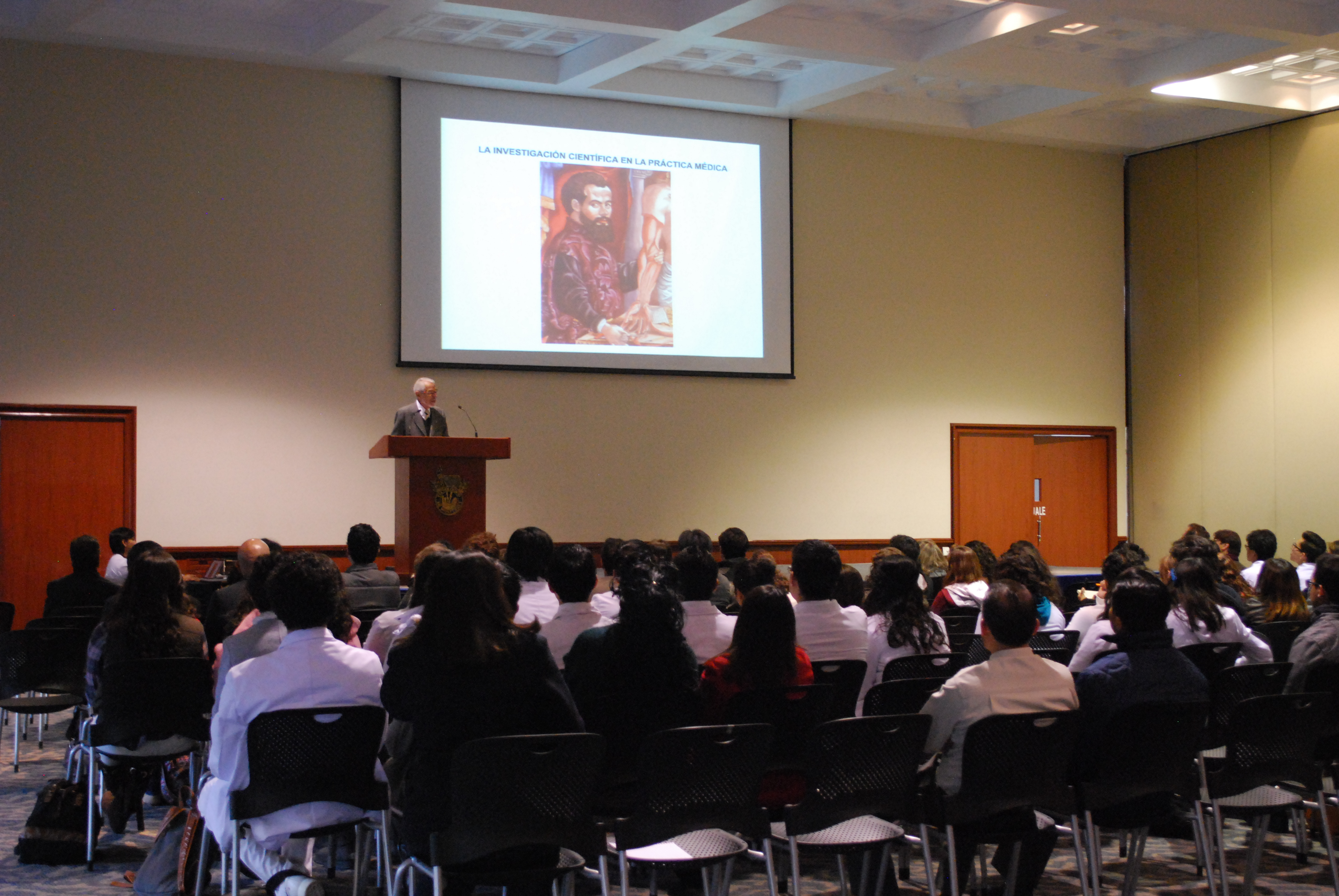 Dr. Ruy Perez Tamayo presenting at ITESM Campus Ciudad de Mexico